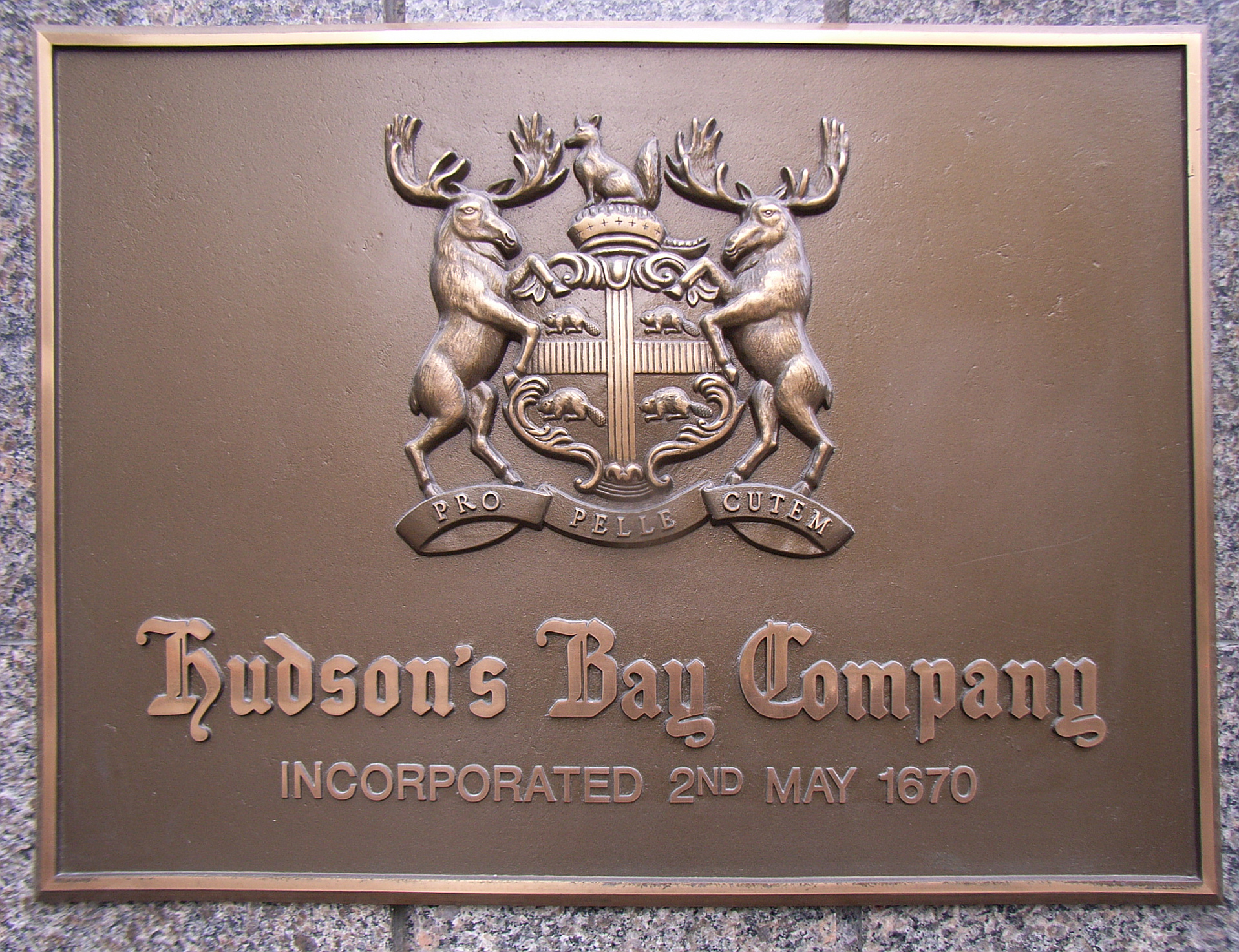 Hudson’s Bay Company Logo